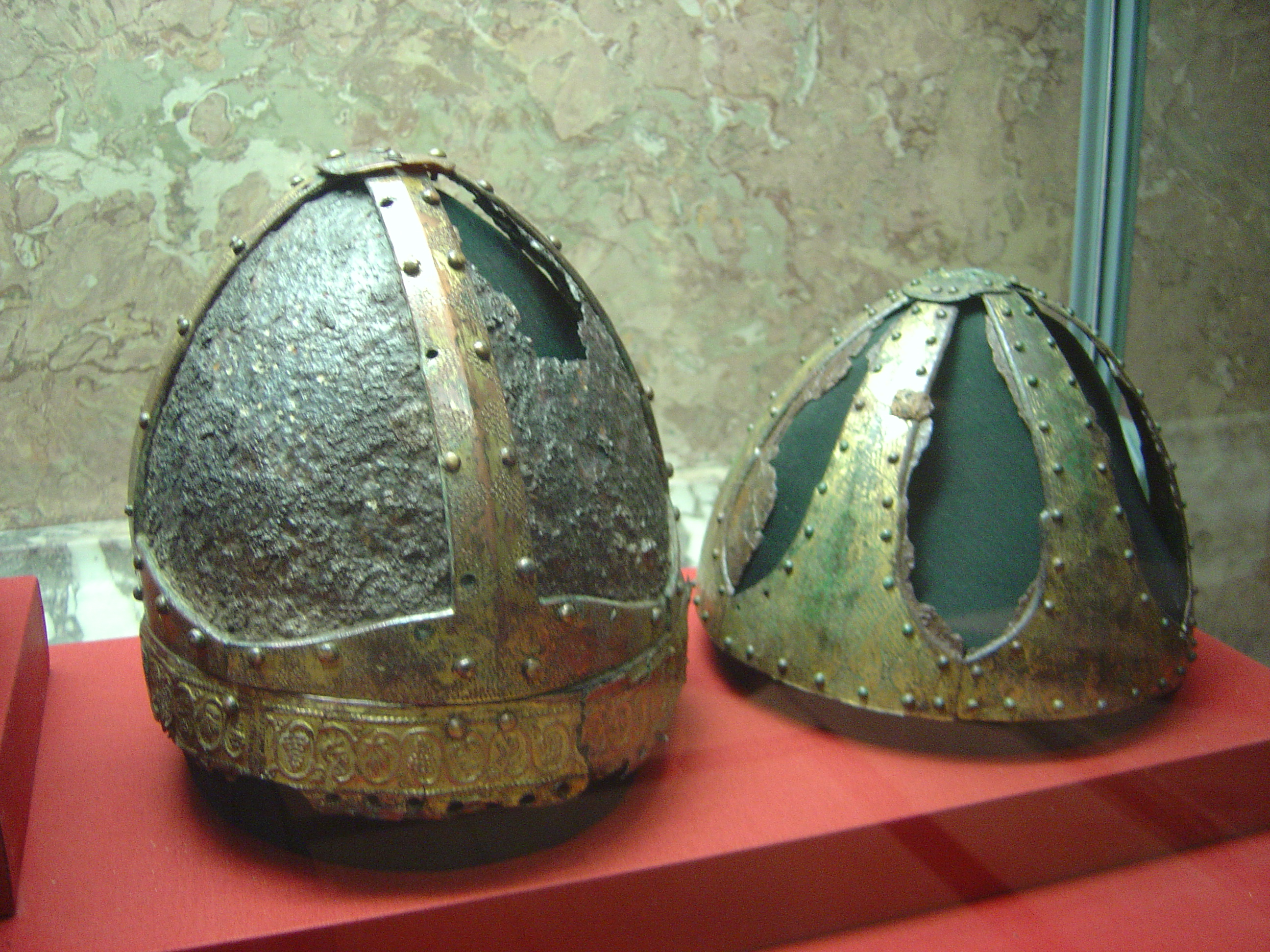 Helmets (Northern Italy? Constantinople? circa 500)